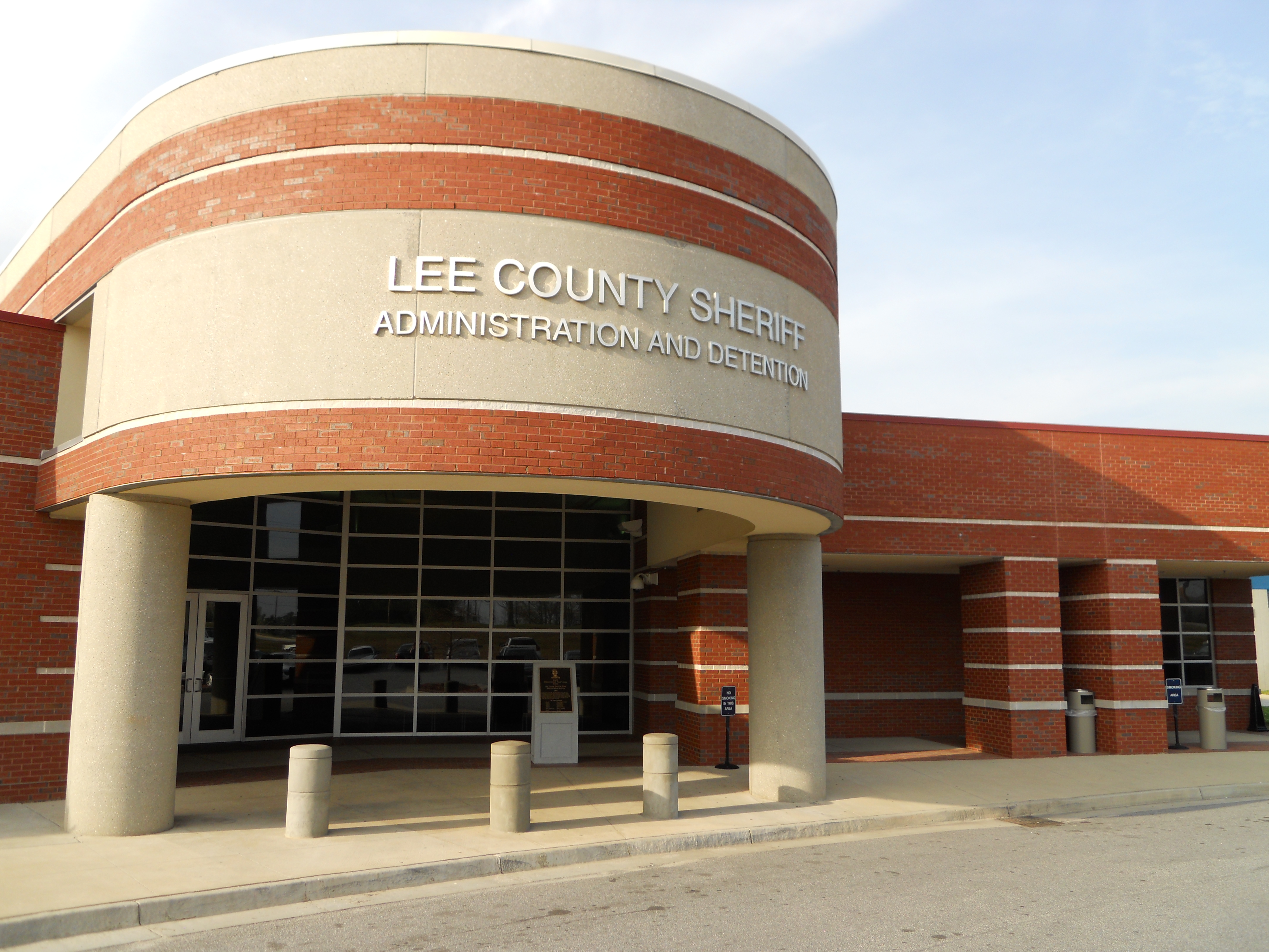 This is a photograph of the Lee County Sheriff's Department administration and detention center located in Opelika, Alabama adjacent to the Lee County Justice Center.